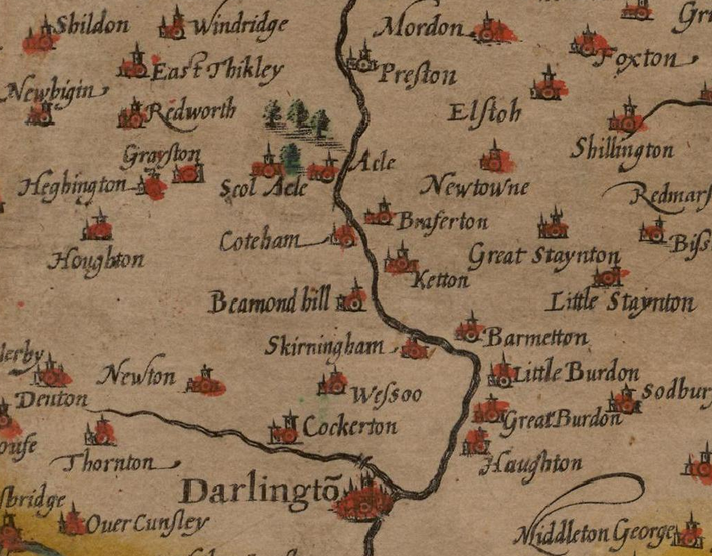 Map of Aycliffe (here named "Acle") and area from John Speed's ~1611 map of County Durham